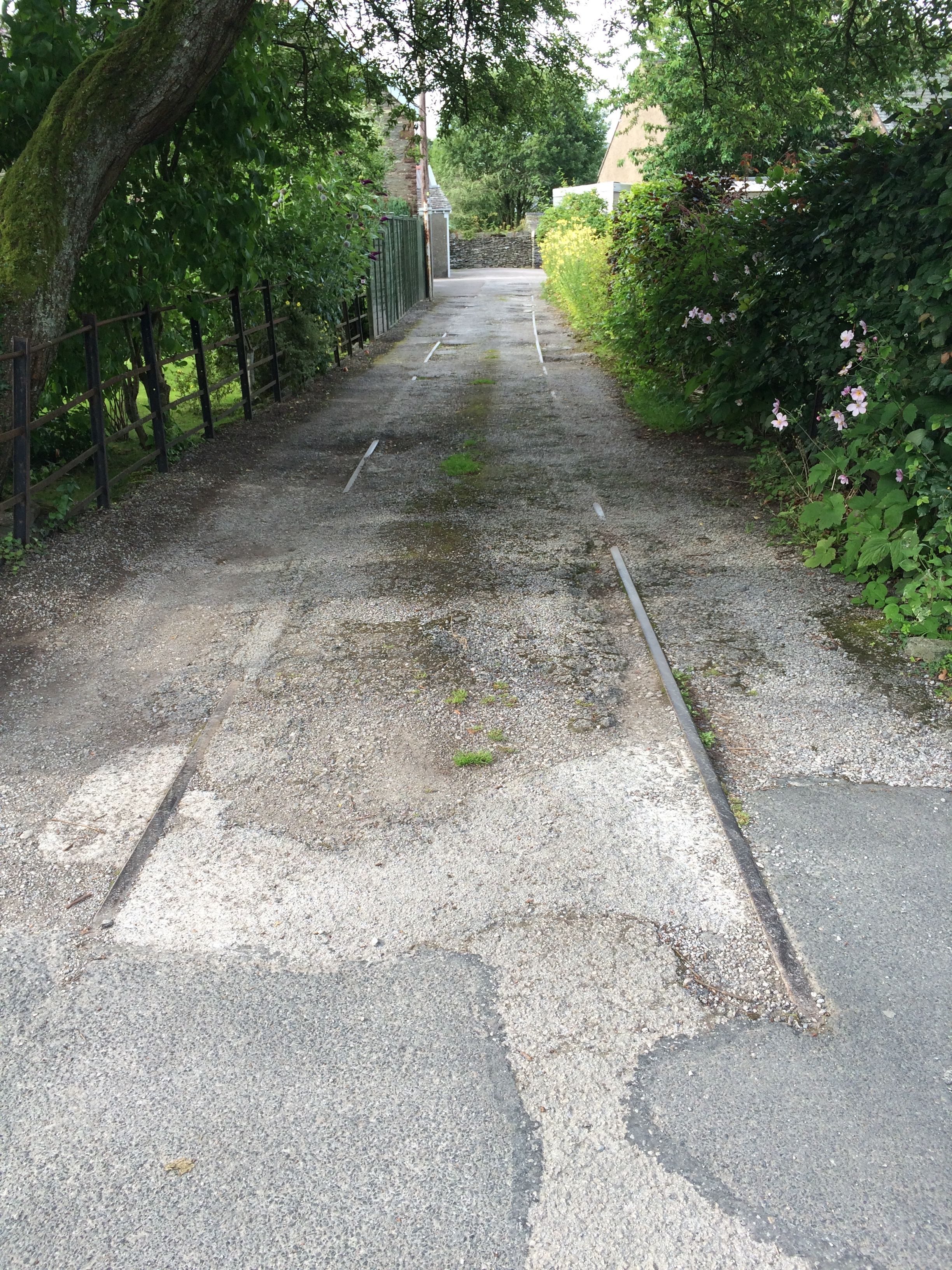 Railway track in a private driveway, Burneside, Cumbria. The track remains from the former railway good yard.